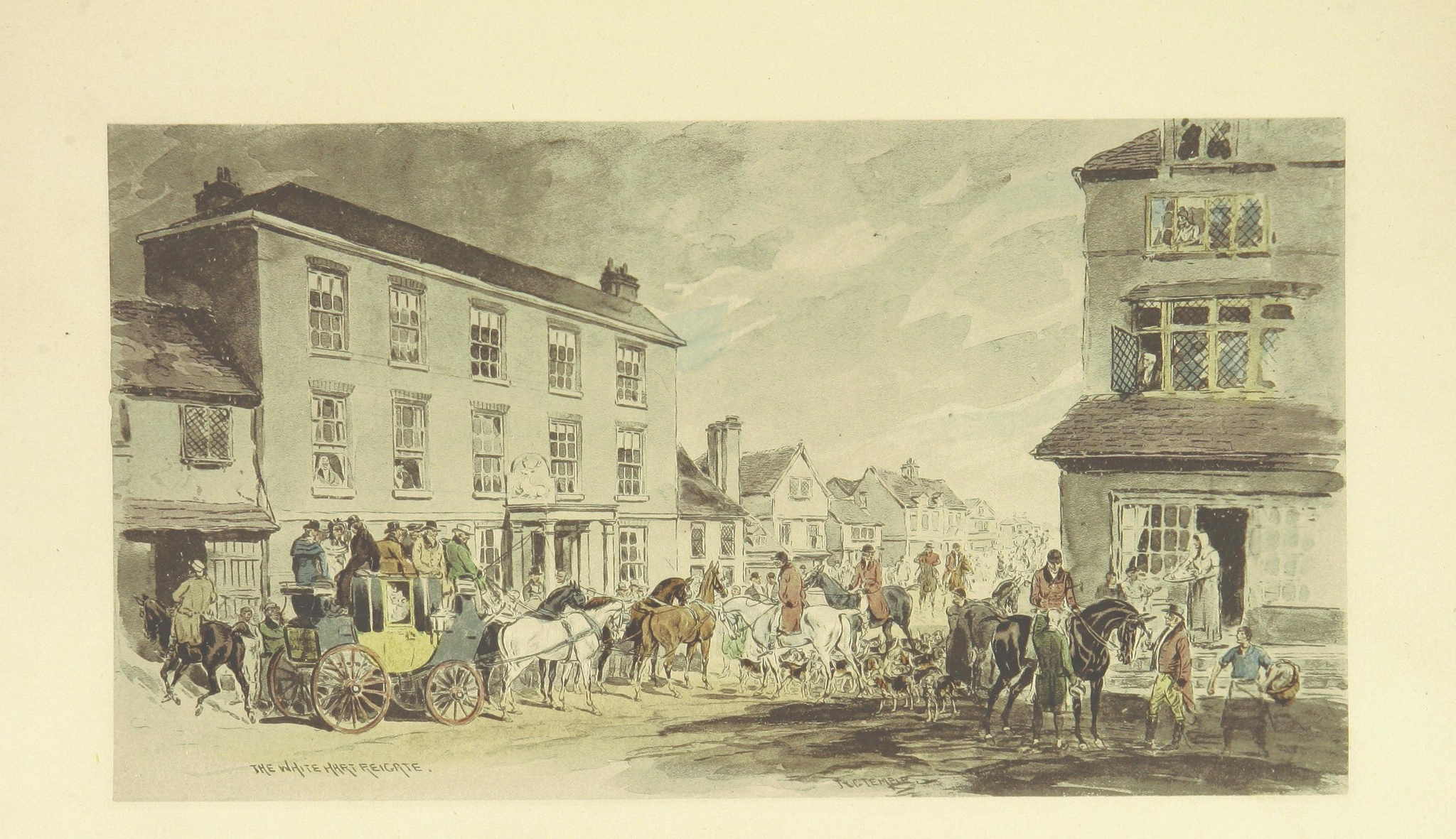 A depiction of The White Hart pub in Reigate.